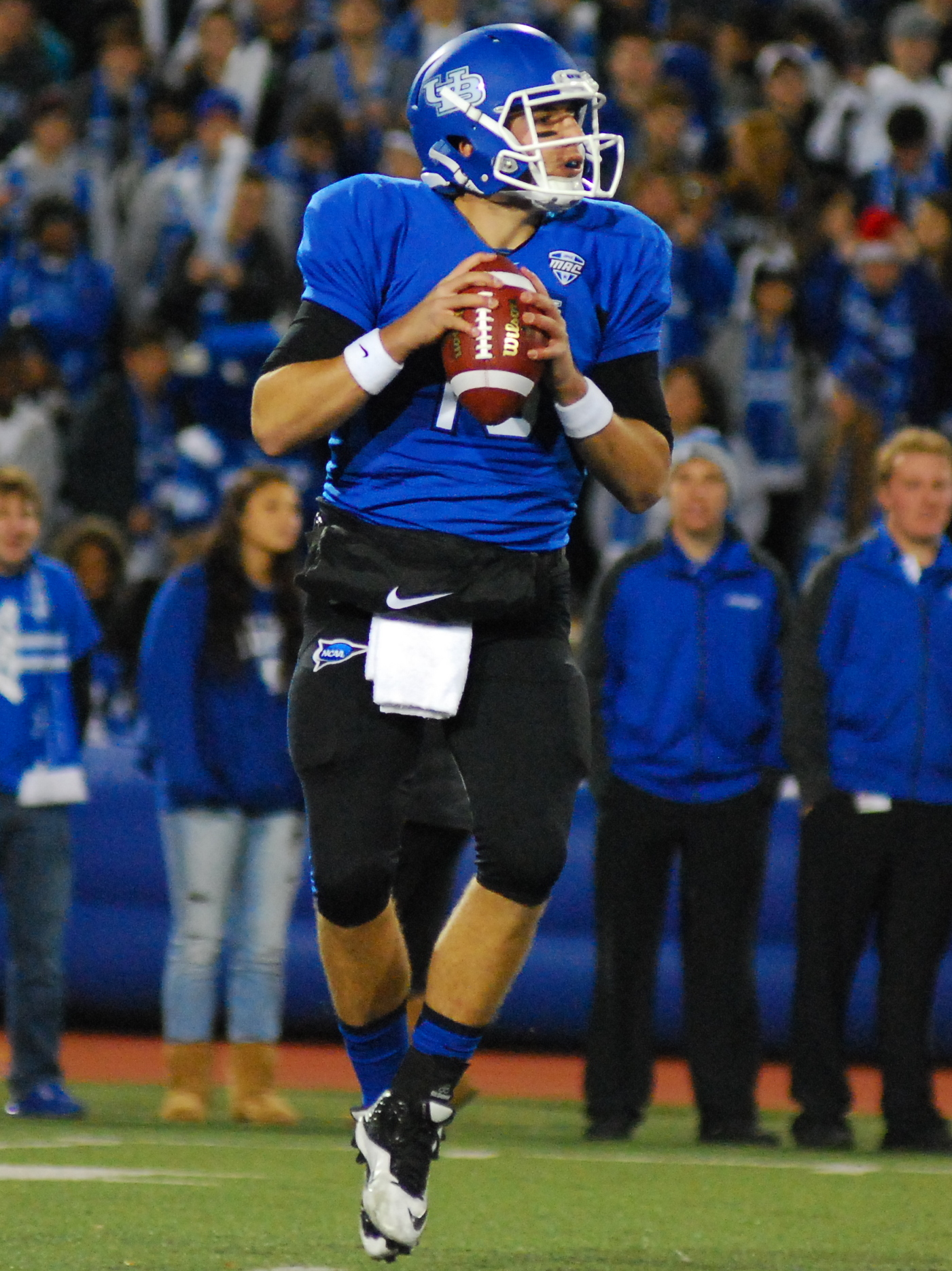 Joe Licata with the Buffalo Bulls at UB Stadium during a November 2013 victory over the Ohio Bobcats